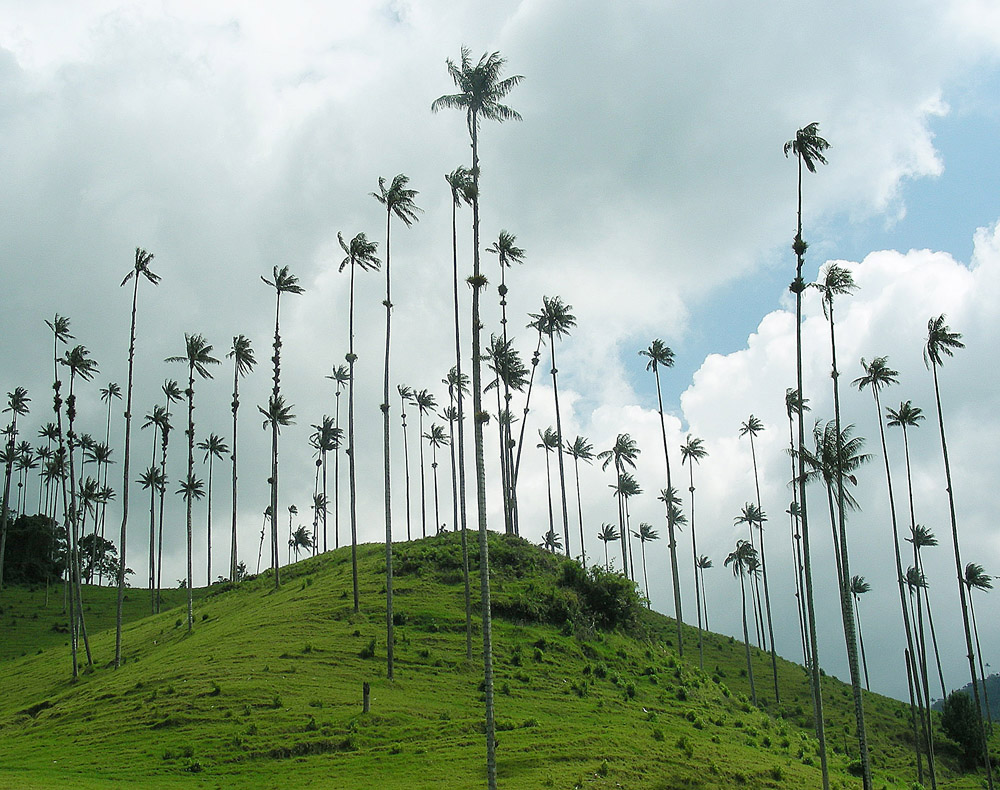 Colombia's national tree, native to the Quindio area. It is best known as the Palma de Cerra or Wax Palm. In context at